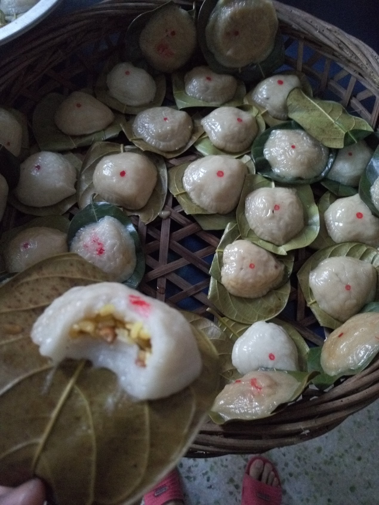 traditional Maoming snack